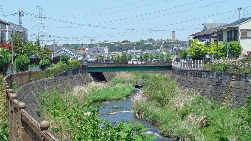 Tsurumi River at Kanaimachi, Machida, TOKYO